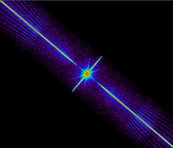 This Chandra X-ray Observatory image is a spectrum of a black hole, which is similar to the colorful spectrum of sunlight produced by a prism. These data reveal that a flaring black hole source has an accretion disk that stops much farther out than some theories predict. Scientists theorize that the accretion disk is truncated there as the material erupts into a hot bubble of gas before taking its final plunge into the black hole. This provides a better understanding of how energy is released when matter spirals into a black hole.